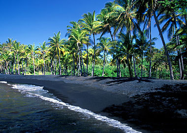 Punaluu Beach Park — with black sand beach and coconut palms, on the island of Hawai’i - Big Island.